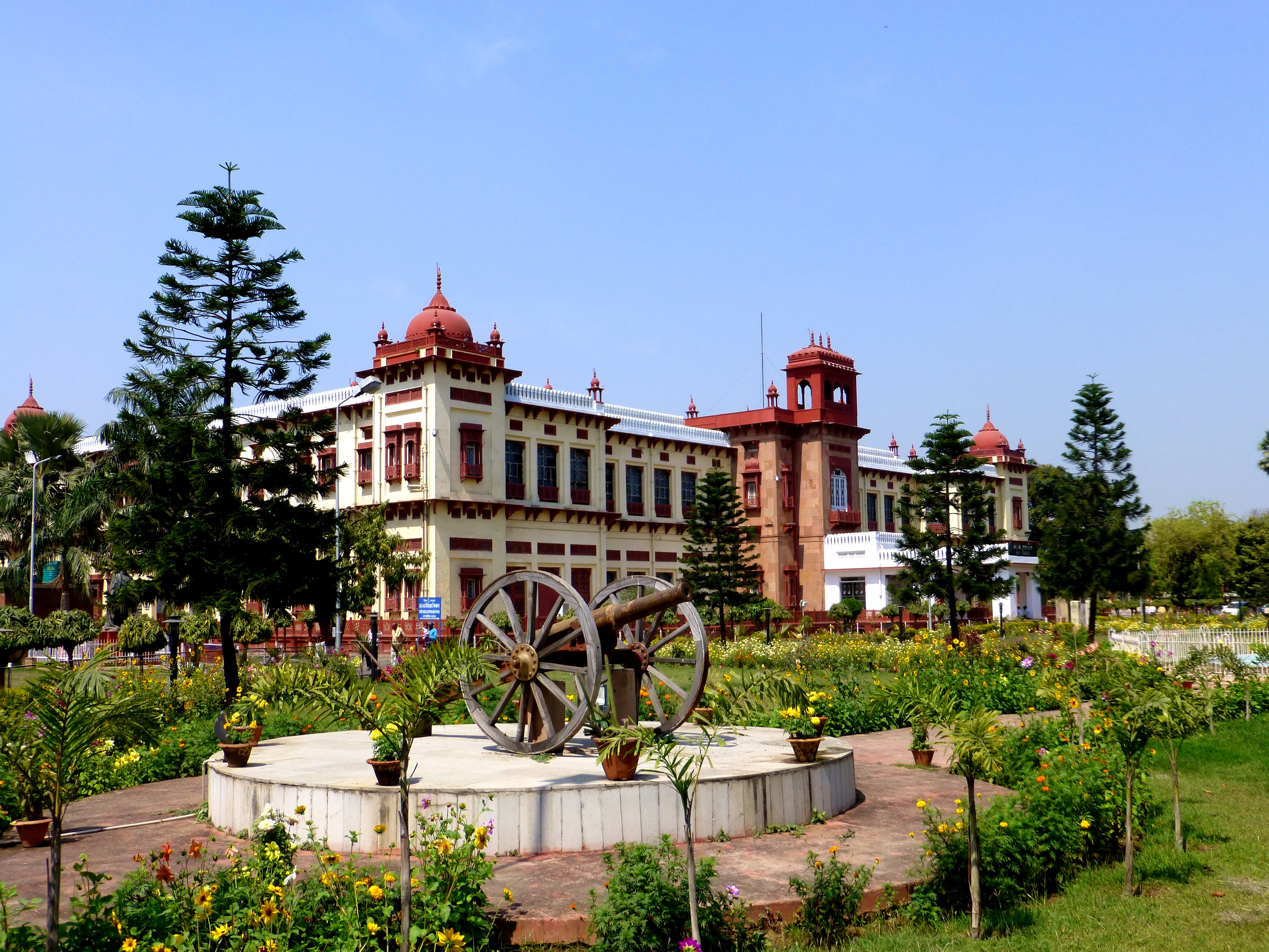 01 General View, at the Patna Museum, Bihar Photograph from the Patna Museum in Bihar taken by Anandajoti.